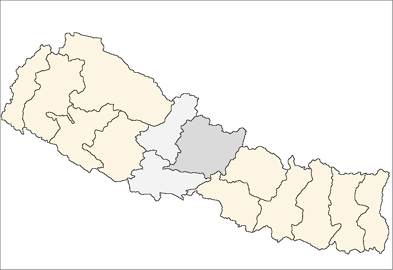 FrenchCarte de localisation de lazone de Gandaki(wp-FR),au Népal (wp-FR).EnglishLocation map ofGandaki Zone(wp-EN),in Nepal (wp-EN).